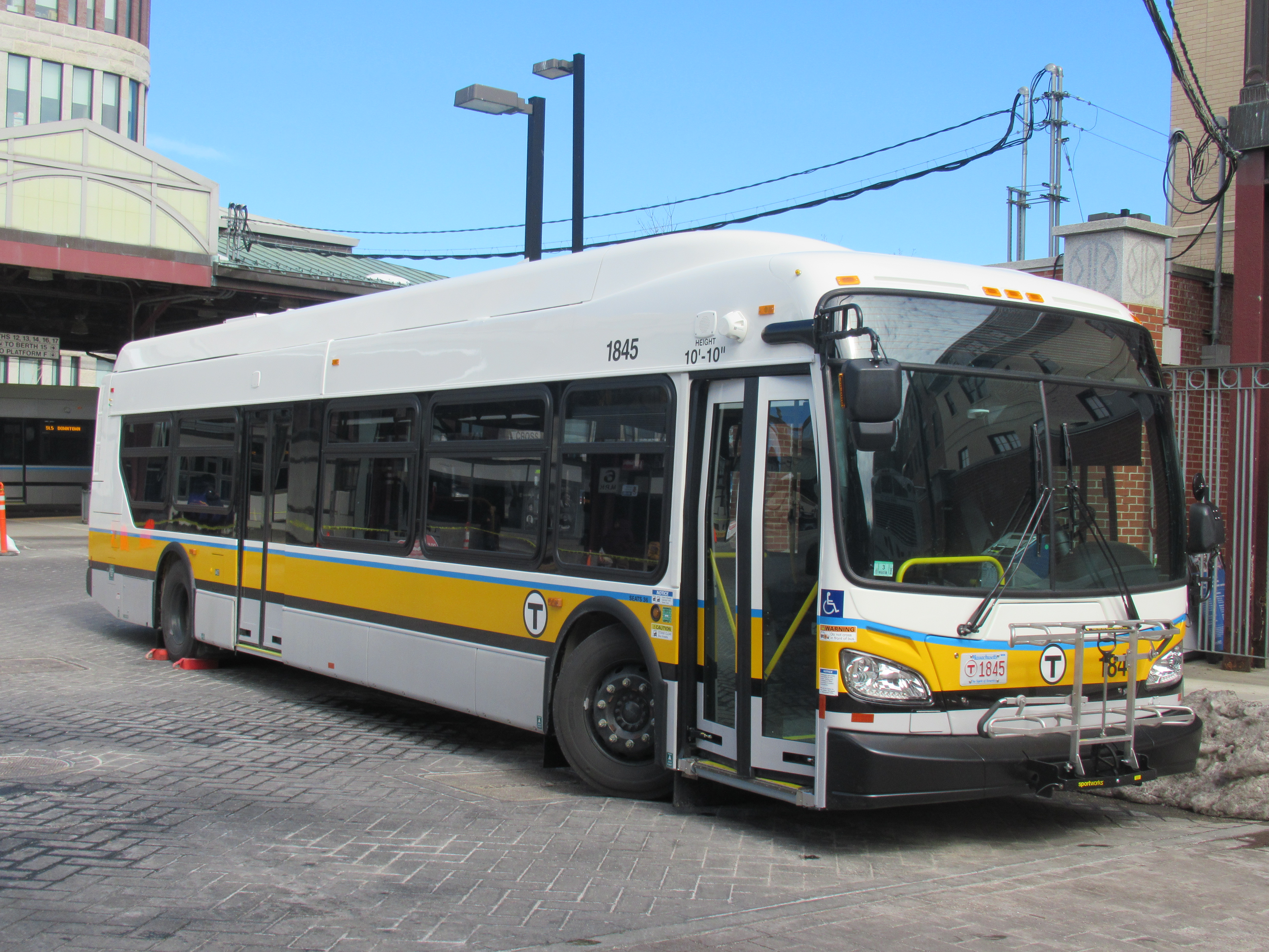 MBTA XDE40 #1845 at Dudley station in 2017